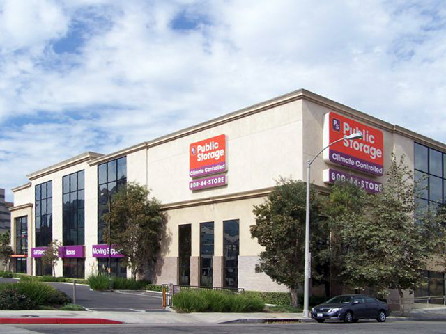 Public Storage location, 11259 West Olympic Blvd Los Angeles, CA, 90064